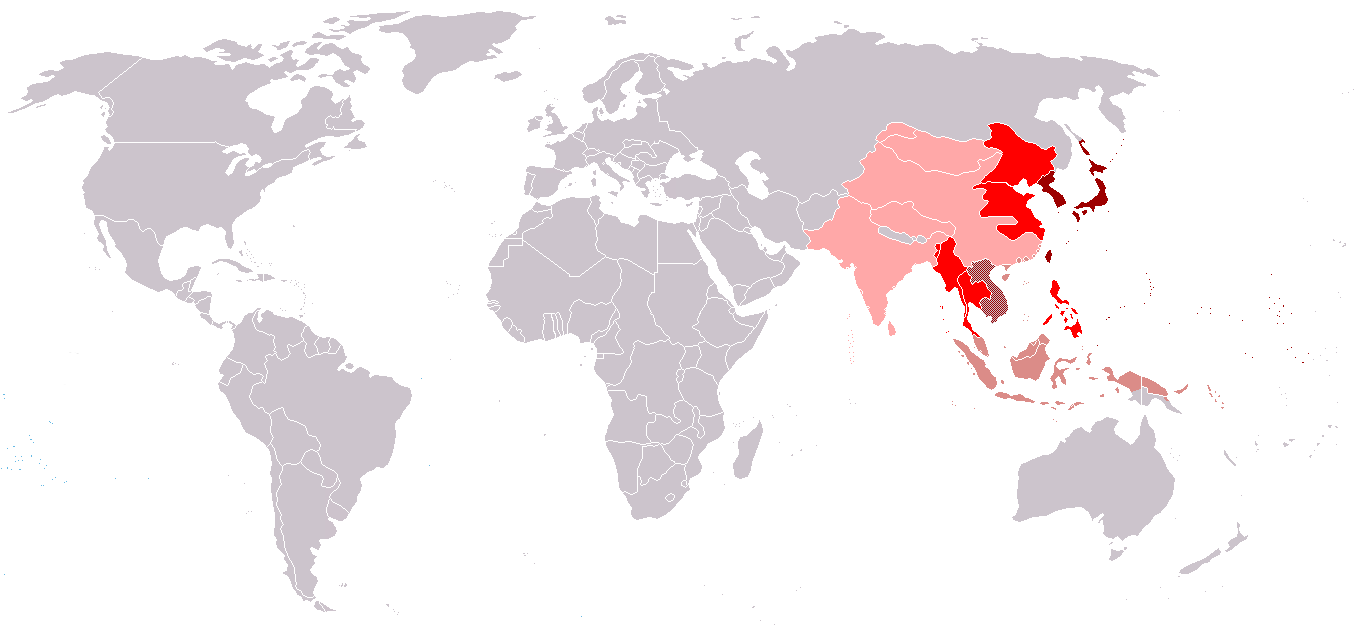 Countries - members of the Greater East Asia Conference